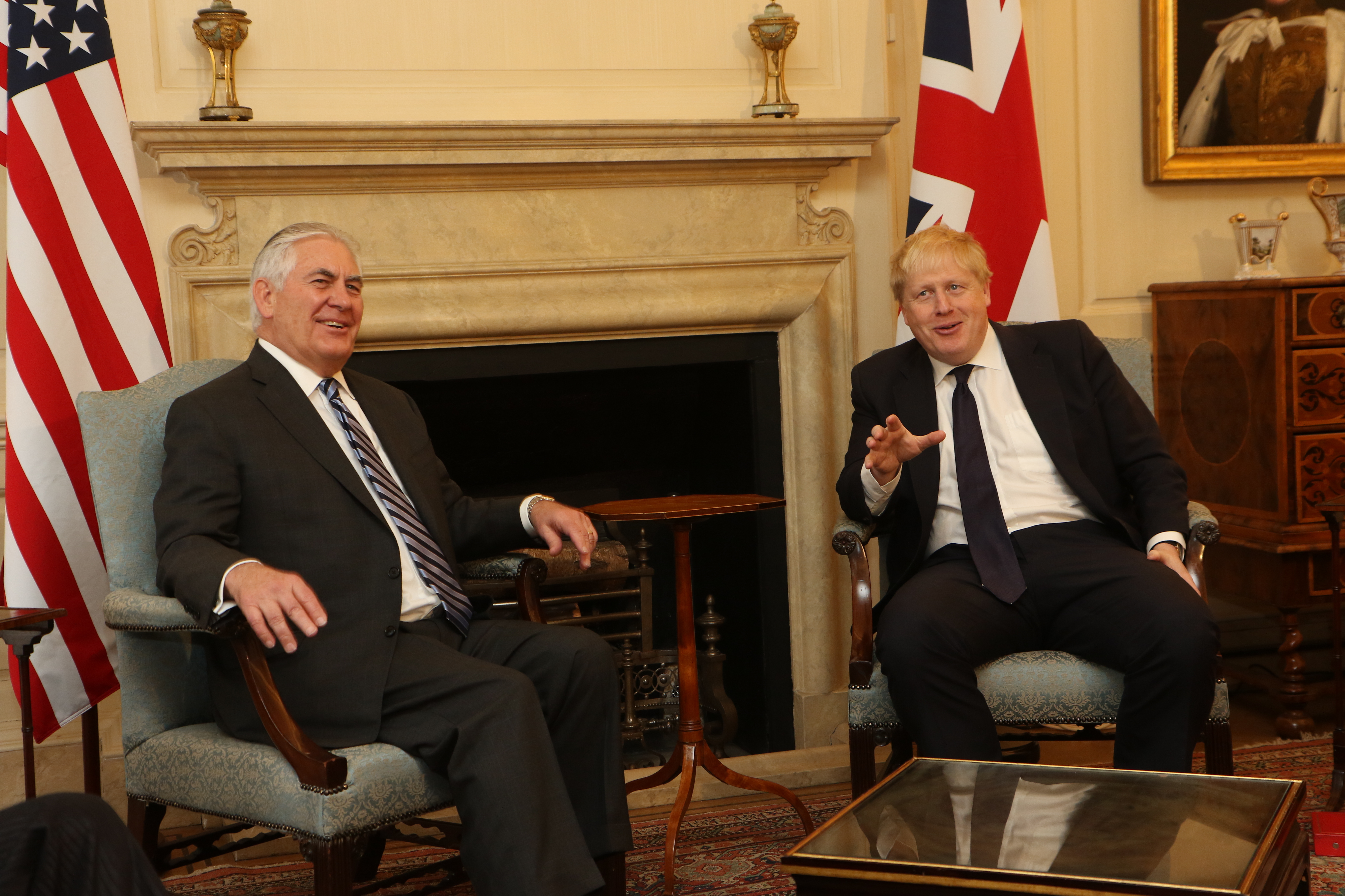 Foreign Secretary Boris Johnson meeting Rex Tillerson, U.S. Secretary of State in London, 22 January 2018.